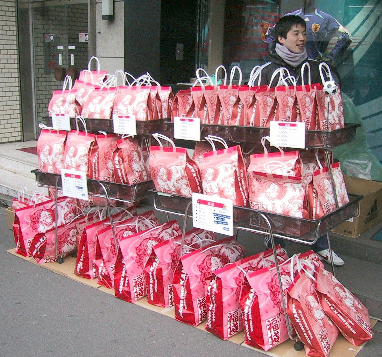 Japanese New Year's fukubukuro ("lucky bags") on sale at a sports store in Takeshita-dori in Tokyo